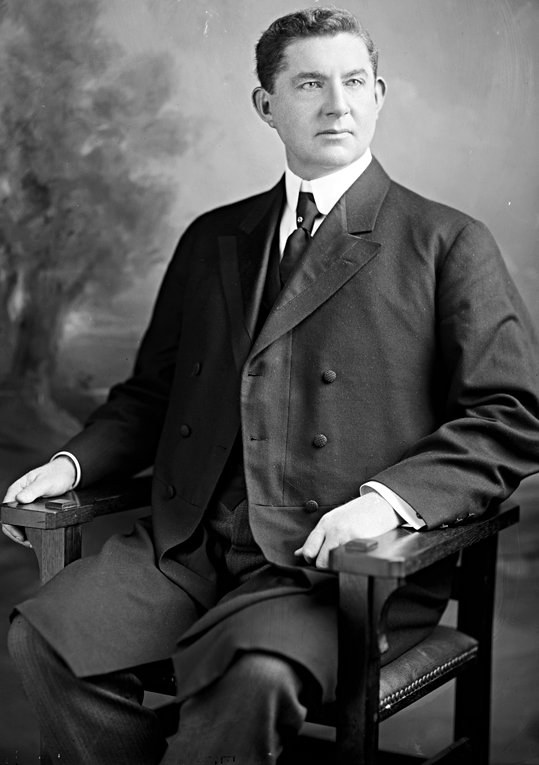 Gilbert B. Patterson, US Representative from North Carolina